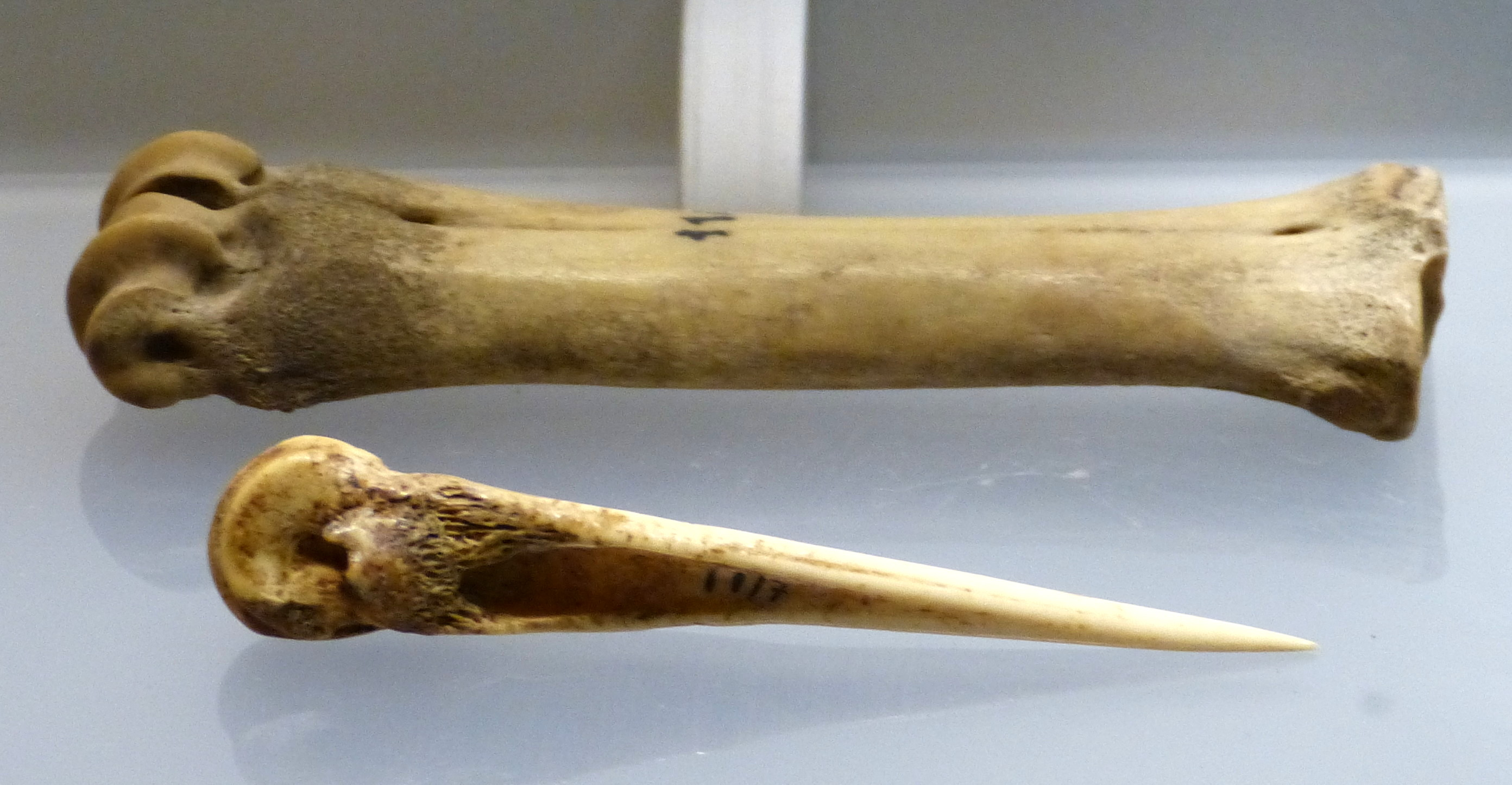 Santa Cruz de Tenerife ( Spain ). Museo de la Naturaleza y el Hombre - Guanche collections: Needle made of bone.